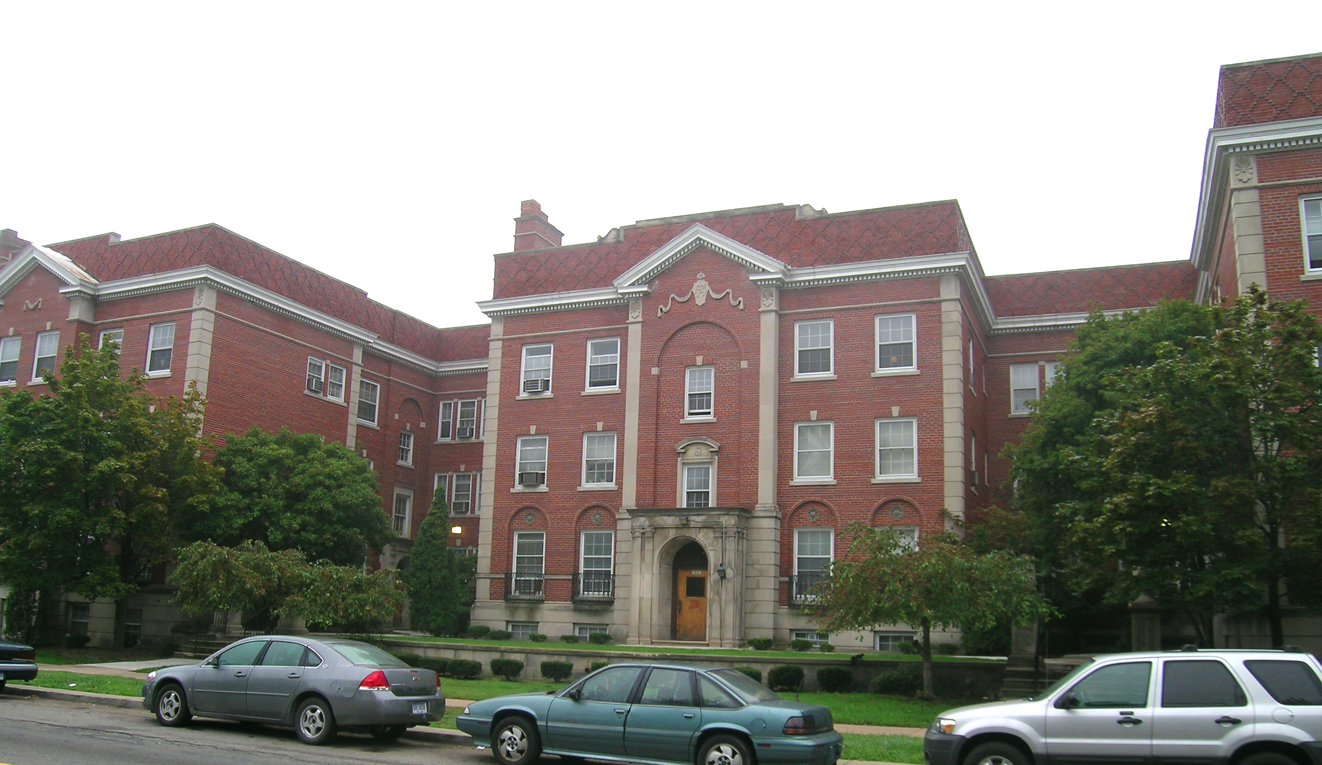 1981 McNichols, Palmer Park Apartment Building District, Detroit MI